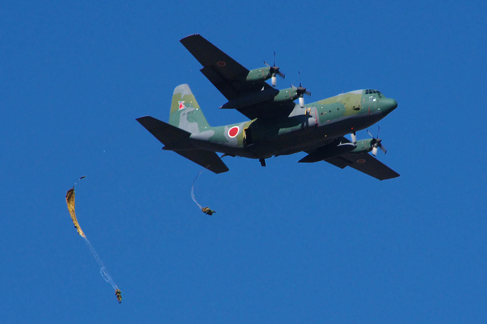 In Narashino,Japan,JGSDF 1st Airborne Brigade 2009 first drop manuver.11-Jan-2009.JASDF C-130&Paratroopers.Taken by Los688.PD-self